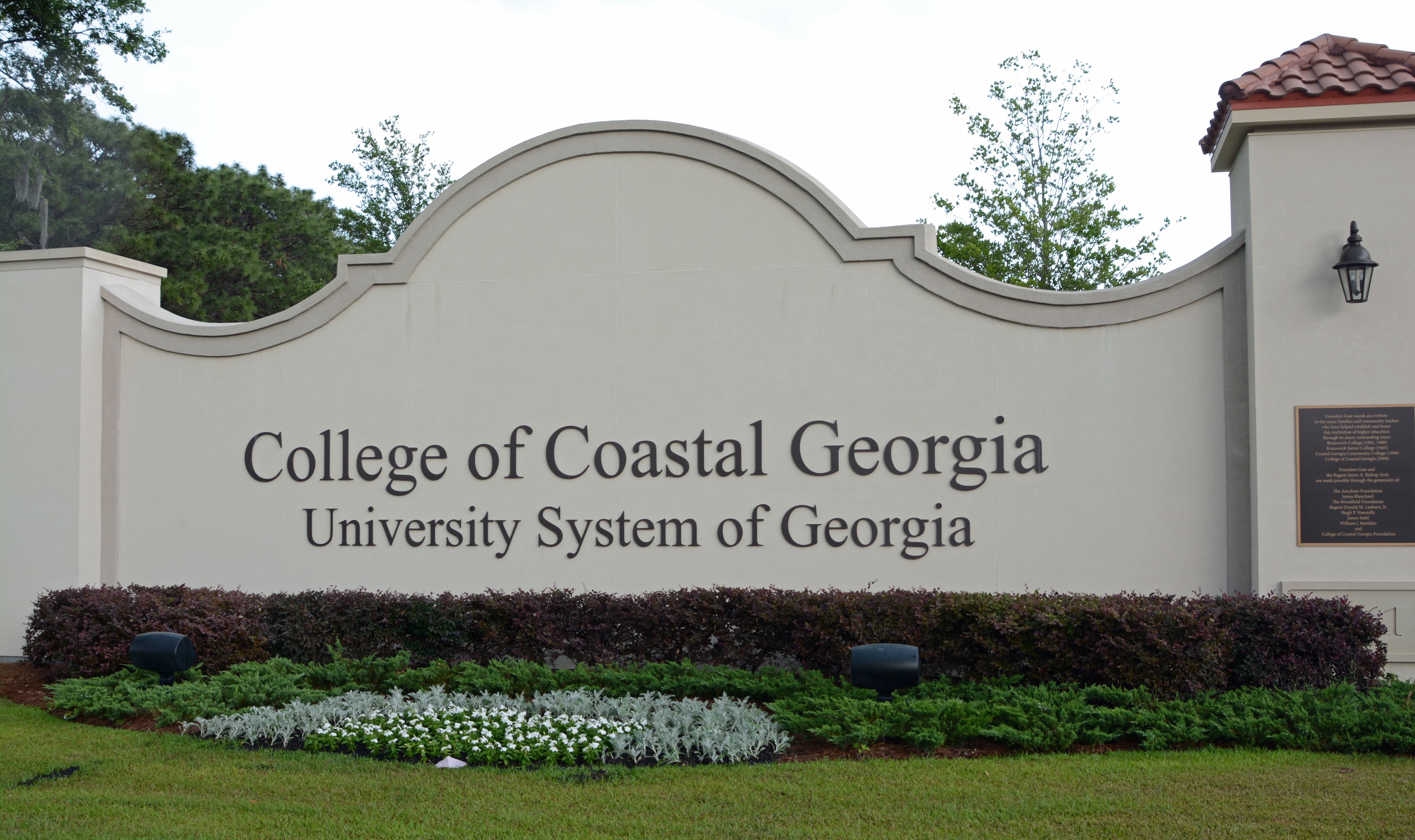 Coastal College of Georgia sign, Altama Ave, Brunswick, GA USA, 2015